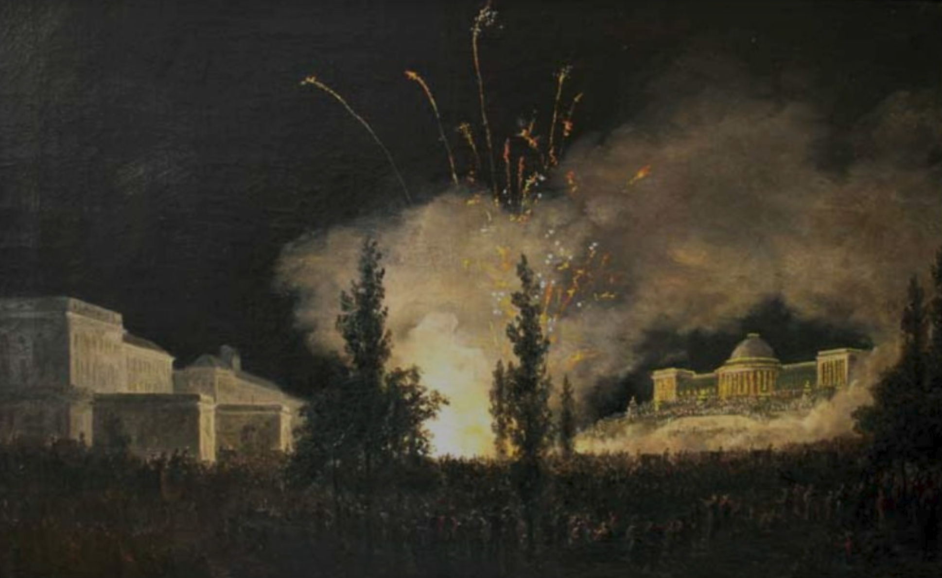 Henri Van Assche, Fireworks at the opening of the Jardin Botanique in Brussels, 1829